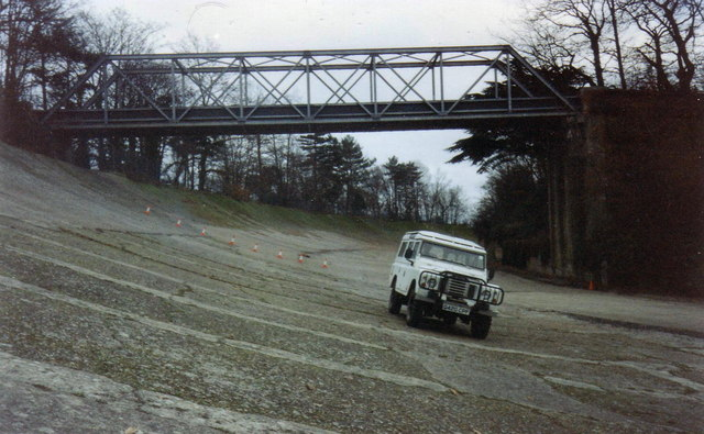 Banked section and Members' Bridge, Brooklands